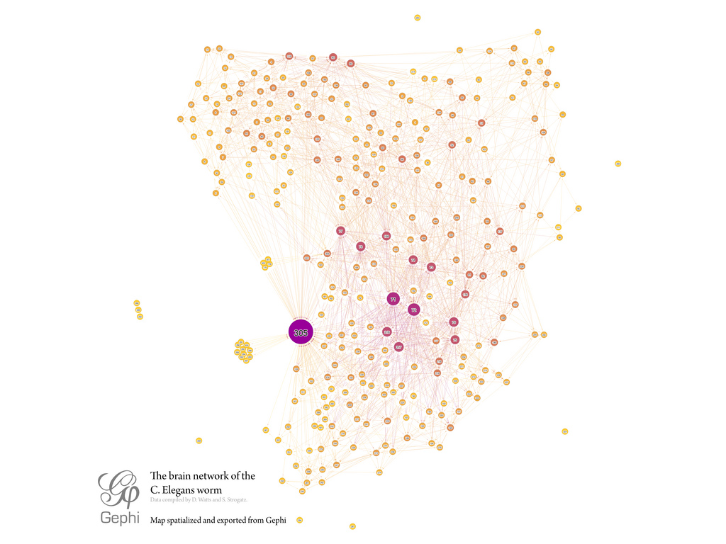 The brain network of the C.Elegans worm; data computed by D.Watts and S.Strogatz; map spatialized from Gephi.